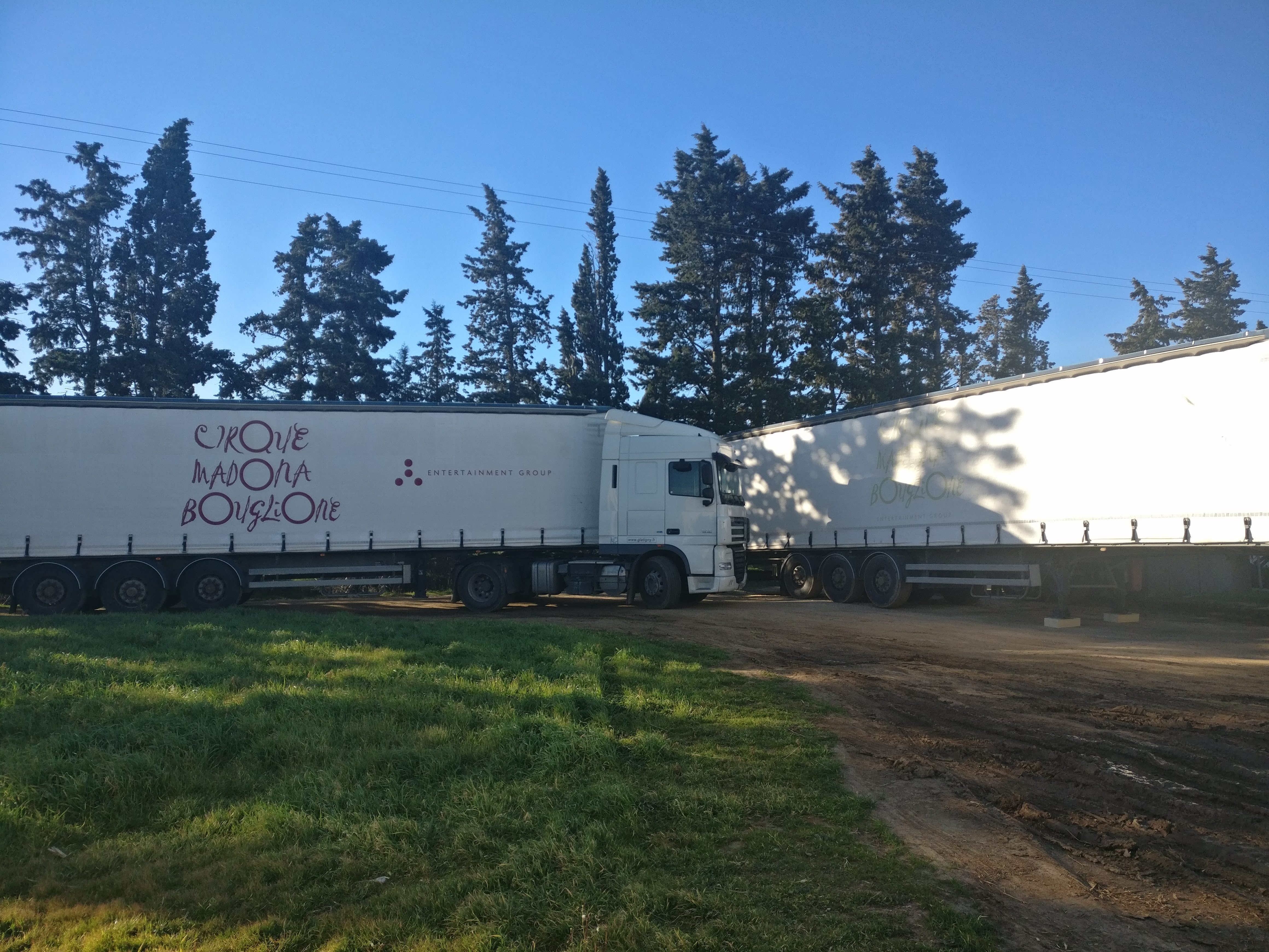 truck